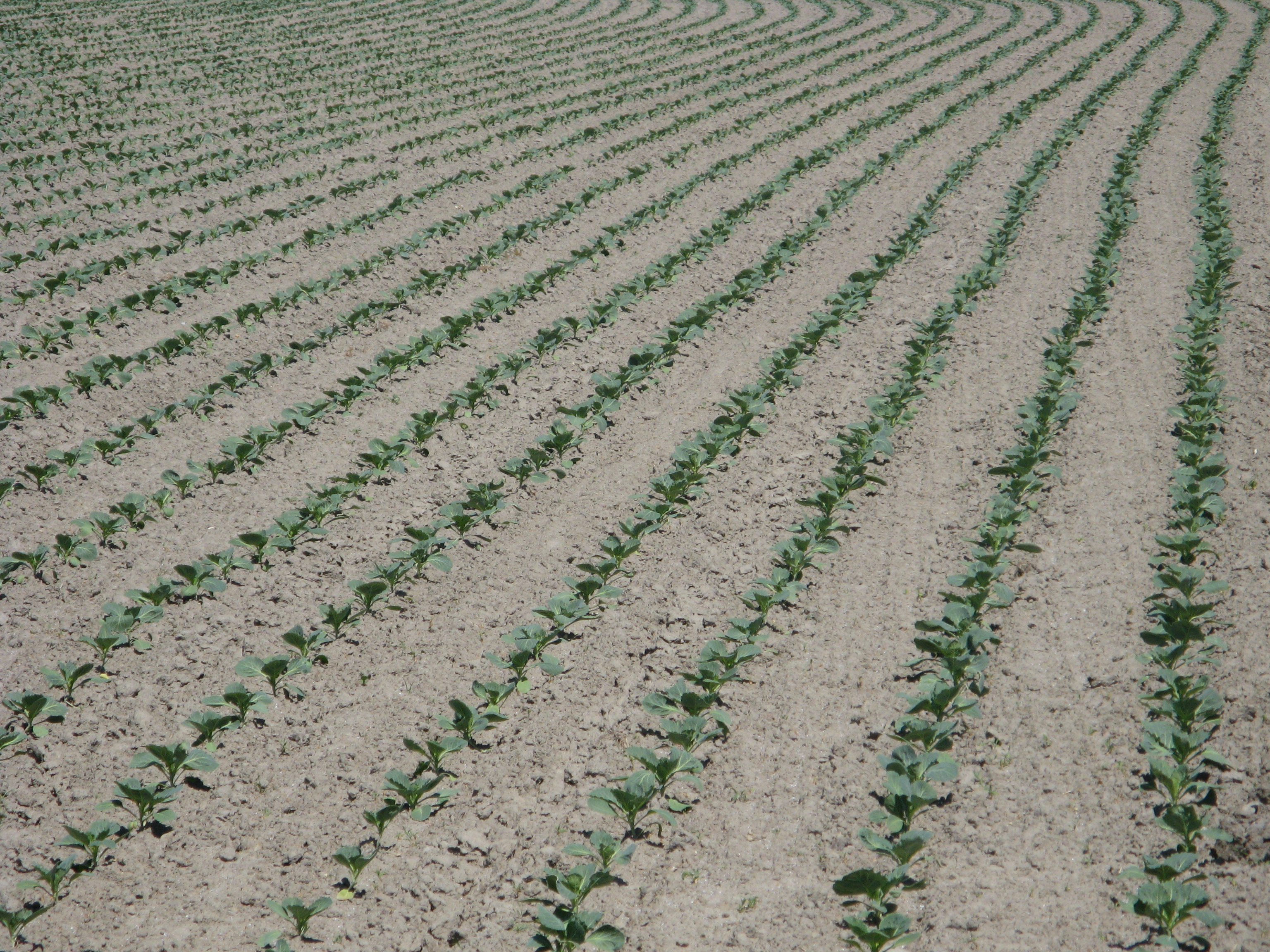 Cabbage field in Schülp